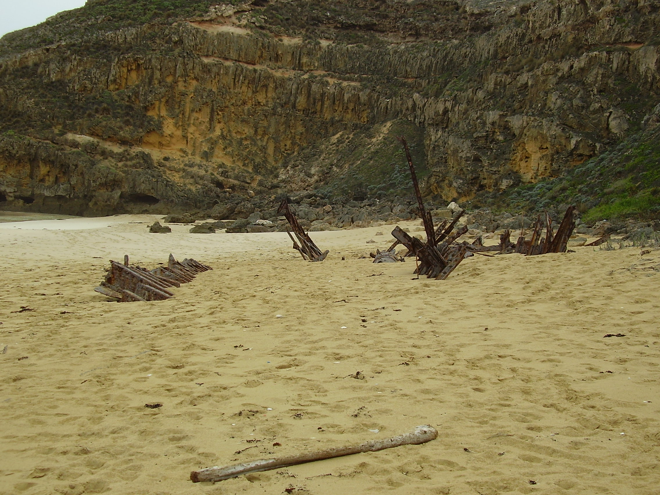 Remains of the wreck of the "Ethel" as of 2007. Yorke Peninsula, South Australia